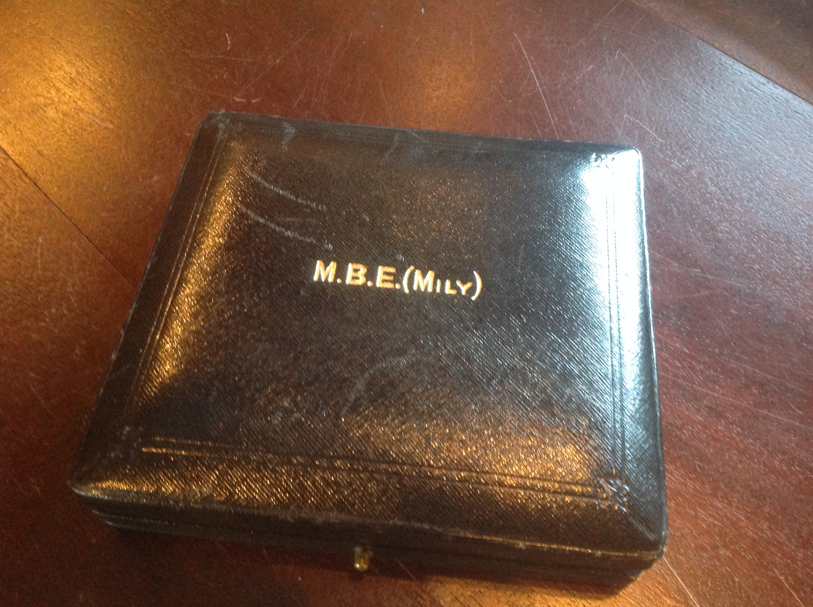 Sister Lily McNicholas's M.B.E. (Mily) case